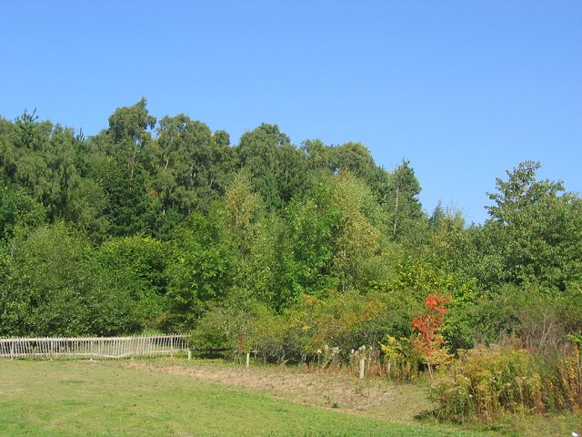 Gore Glen Woodland Park, nr Arniston, Midlothian